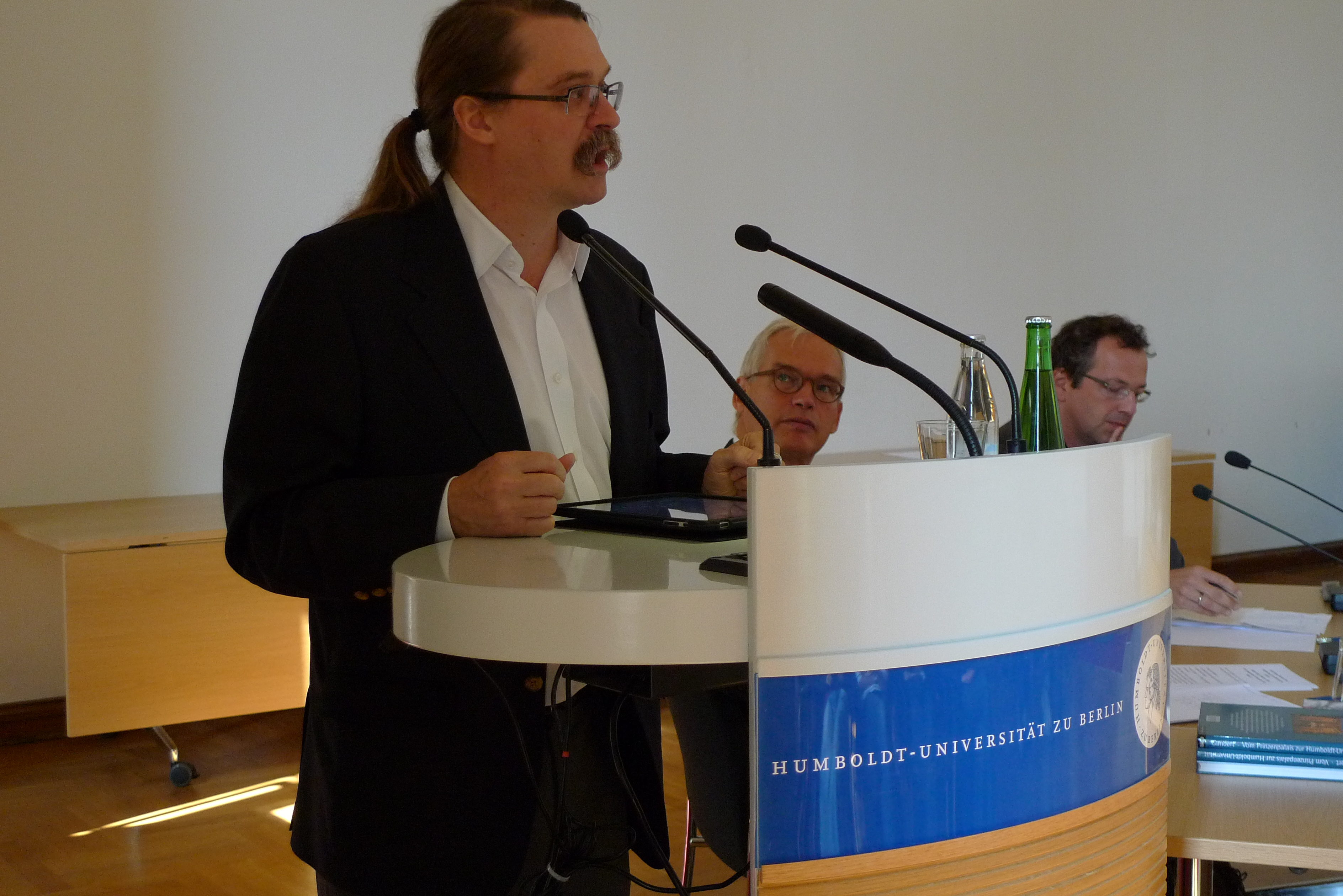 Jon Callas, CTO Of Entrust, Inc, Speaks At Humboldt University In Berlin, Germany.